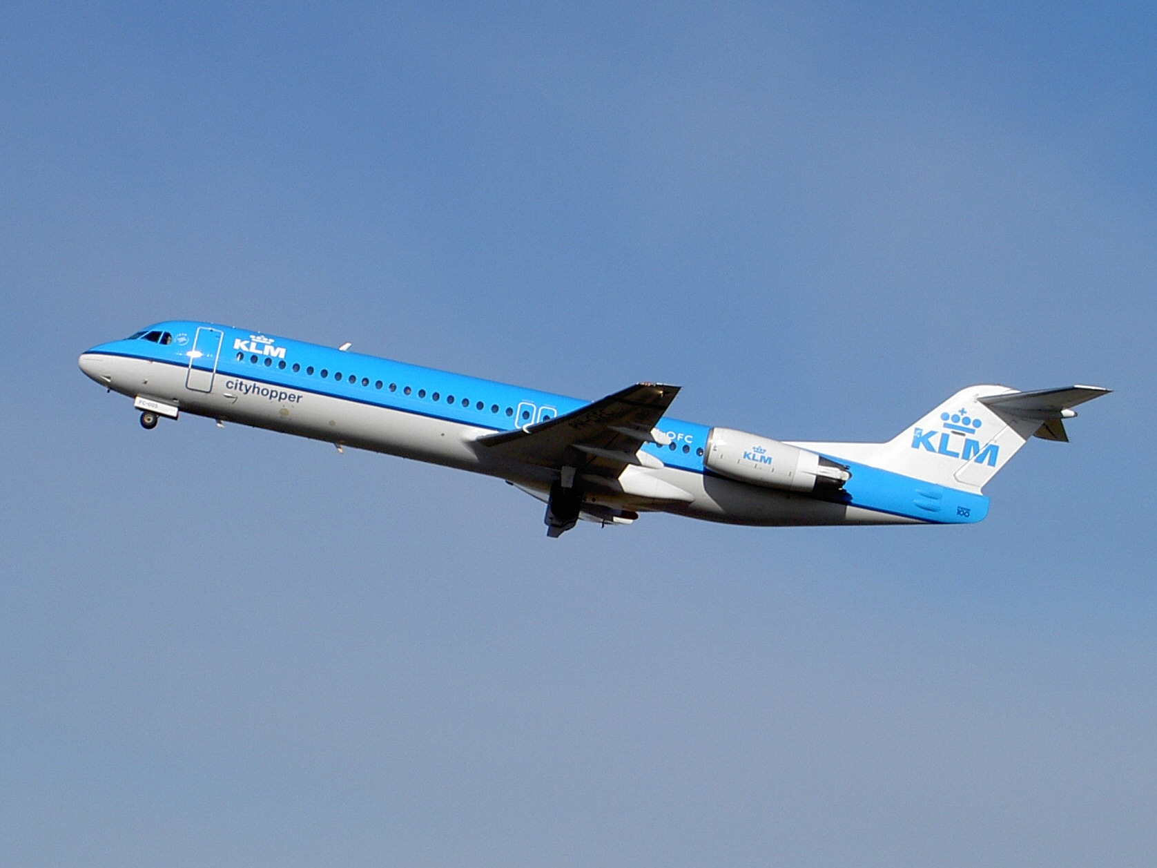 KLM Cityhopper Fokker 100 (F-28-0100), Amsterdam - Schiphol (AMS / EHAM), PH-OFC (cn 11263)